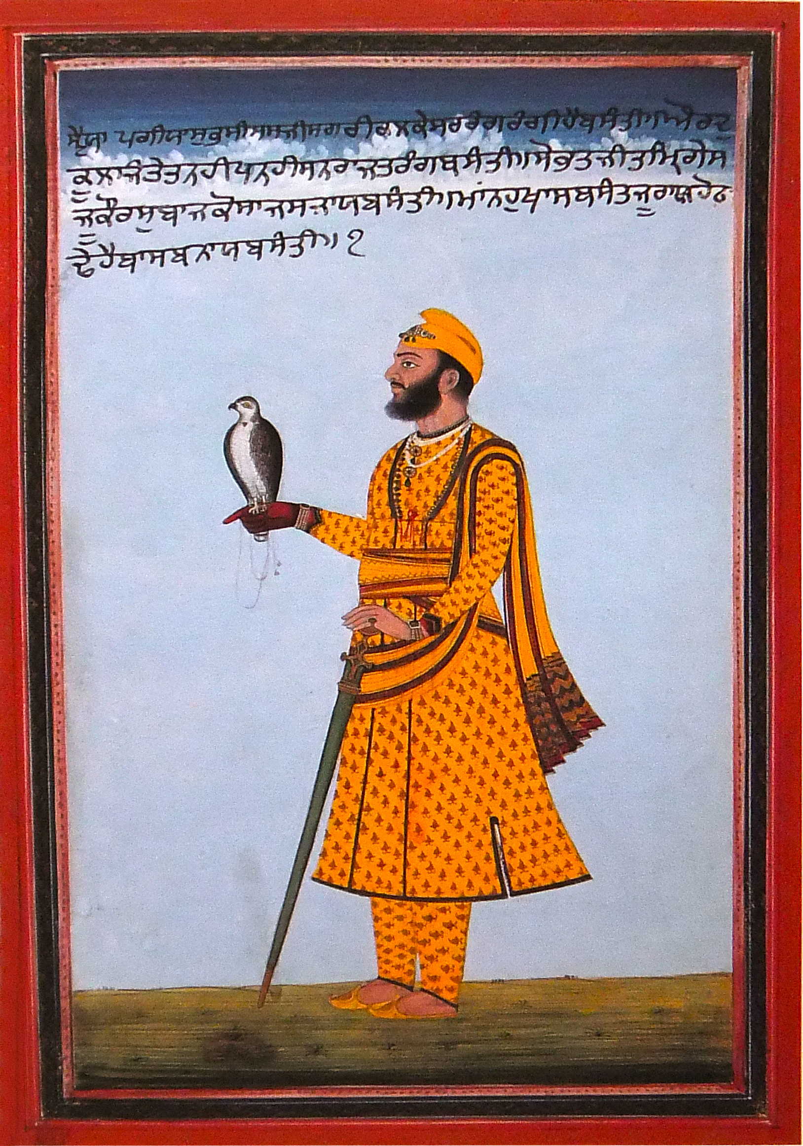 Raja Sangat Singh, King of Jind between 1822–1834. Gouache on paper. 26.8 X 19.2 cm.